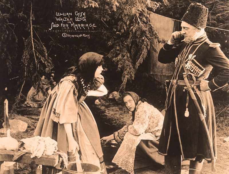 L. to R. : Lillian Gish, Pearl Elmore, and Walter Long in the American film Sold for Marriage (1916) - publicity still